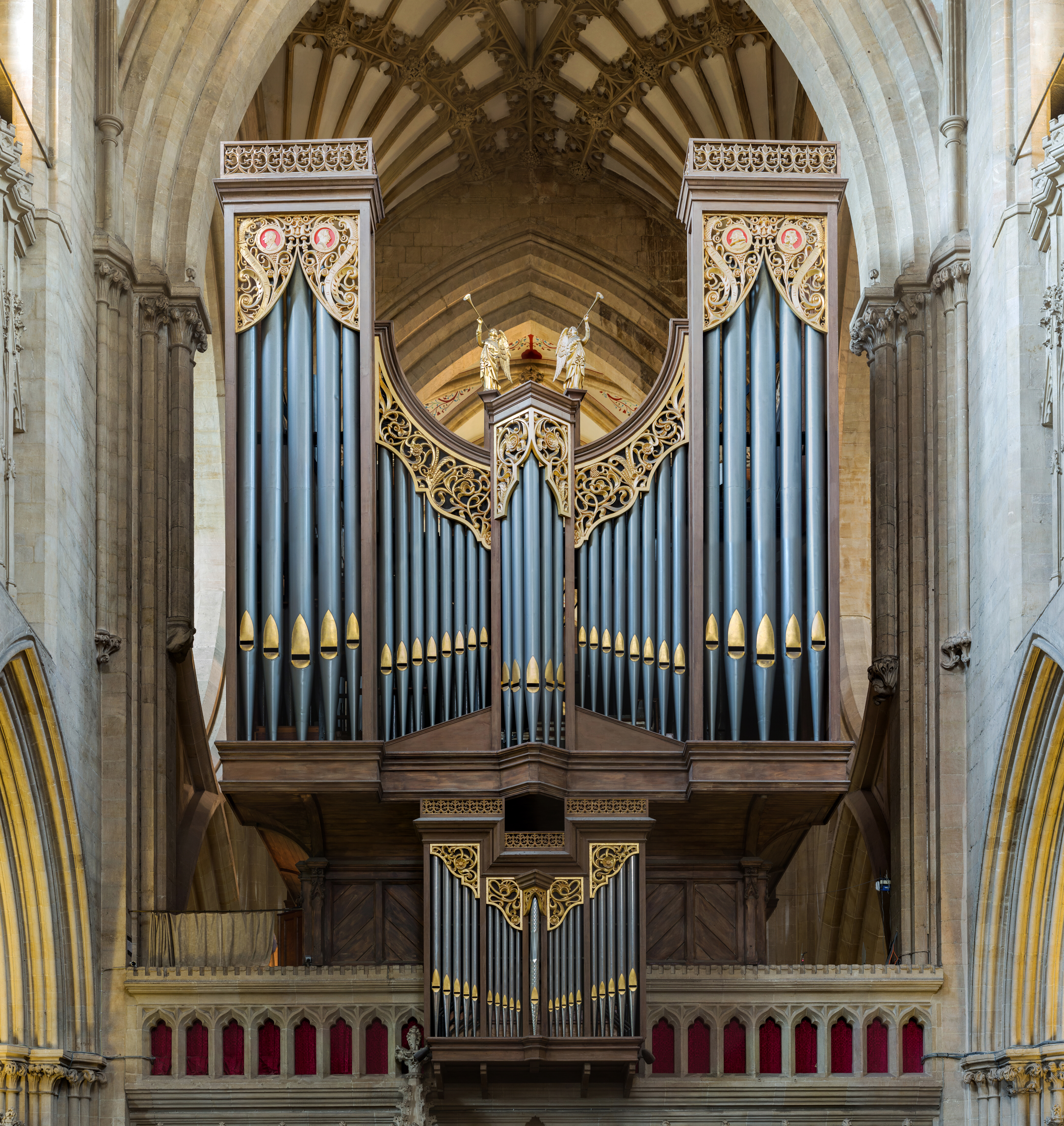 The organ of Wells Cathedral in Somerset, England.